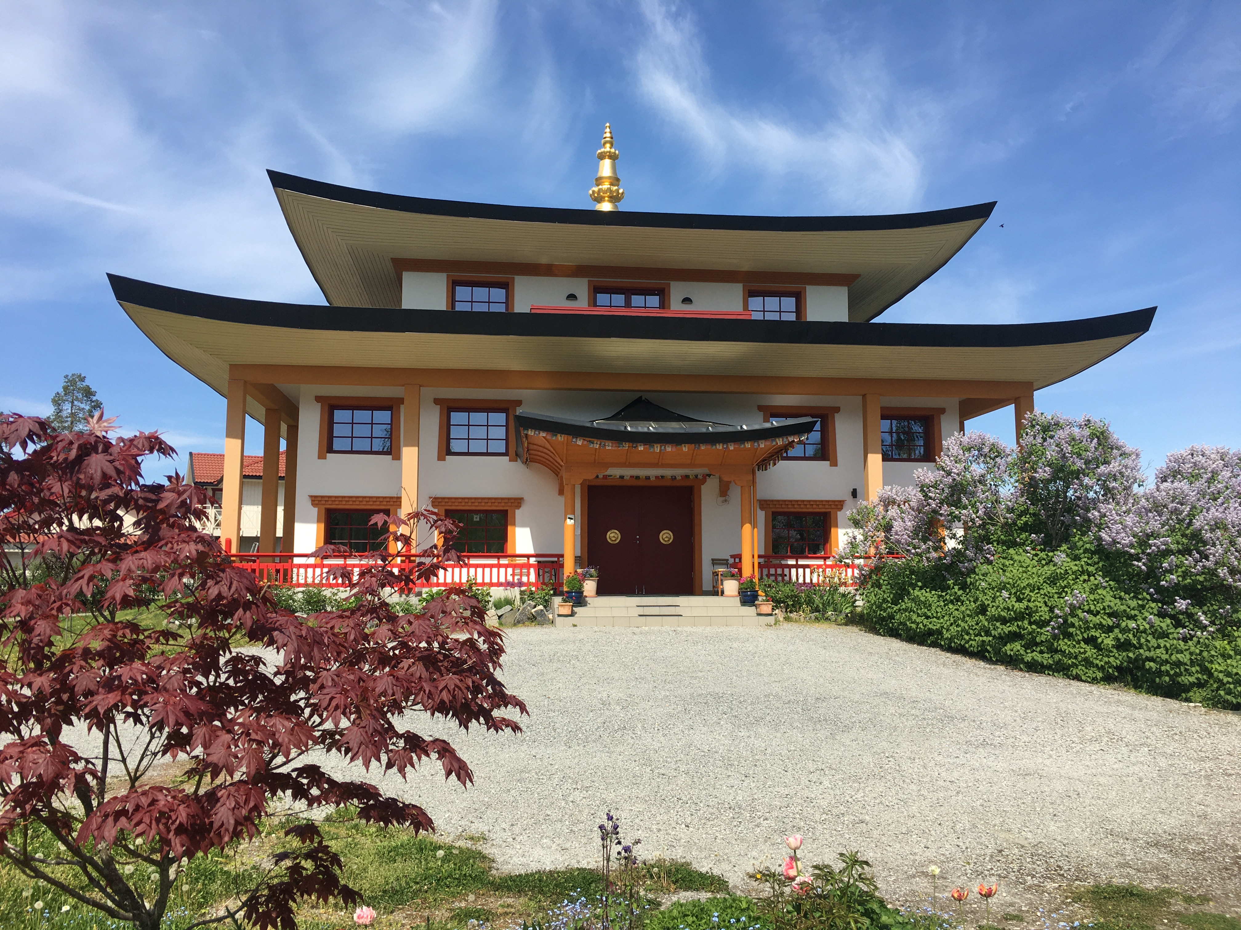 Karma Tashi Ling buddhist temple at Bjørndal in Oslo